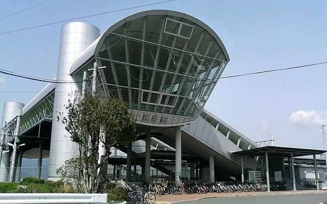 Kanzaki Station, Nagasaki Main Line, Kyushu Railway Company.